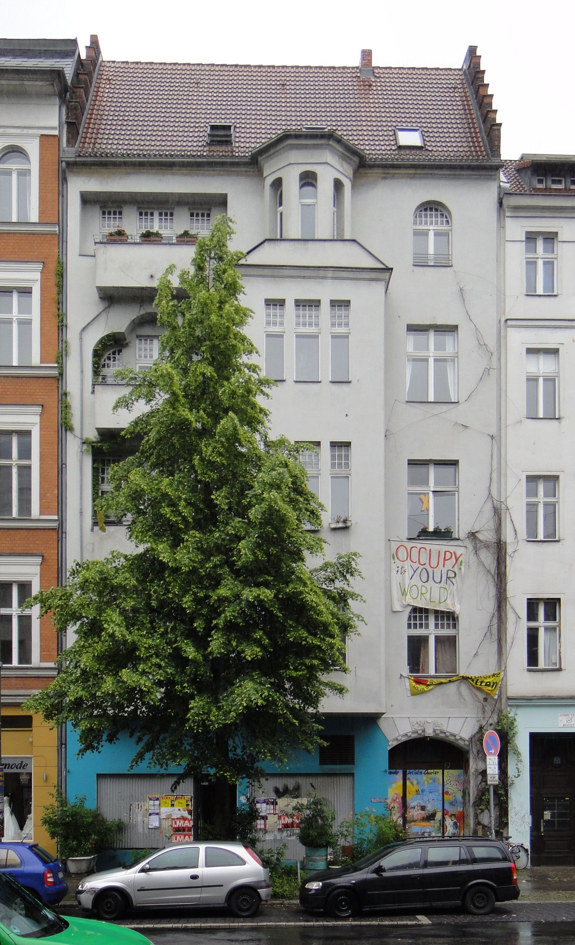 Formerly squatted building on Potsdamer Straße, Berlin-Schöneberg